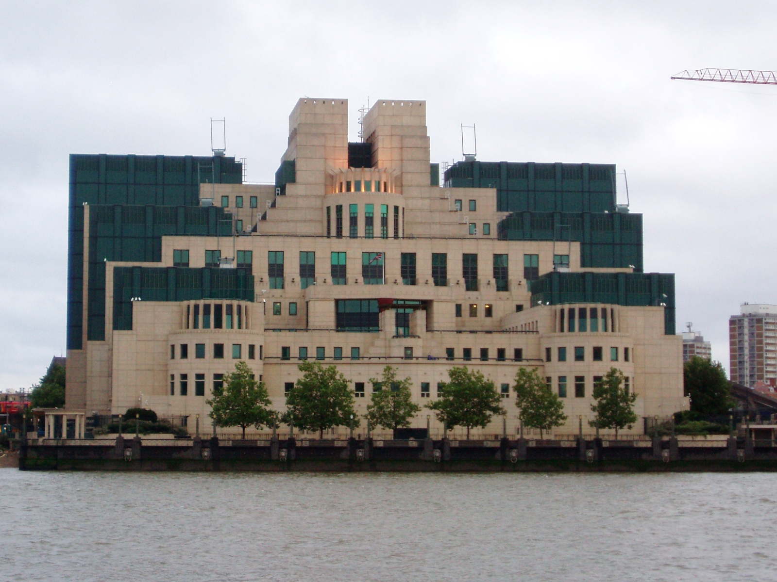 A glorious temple to espionage.